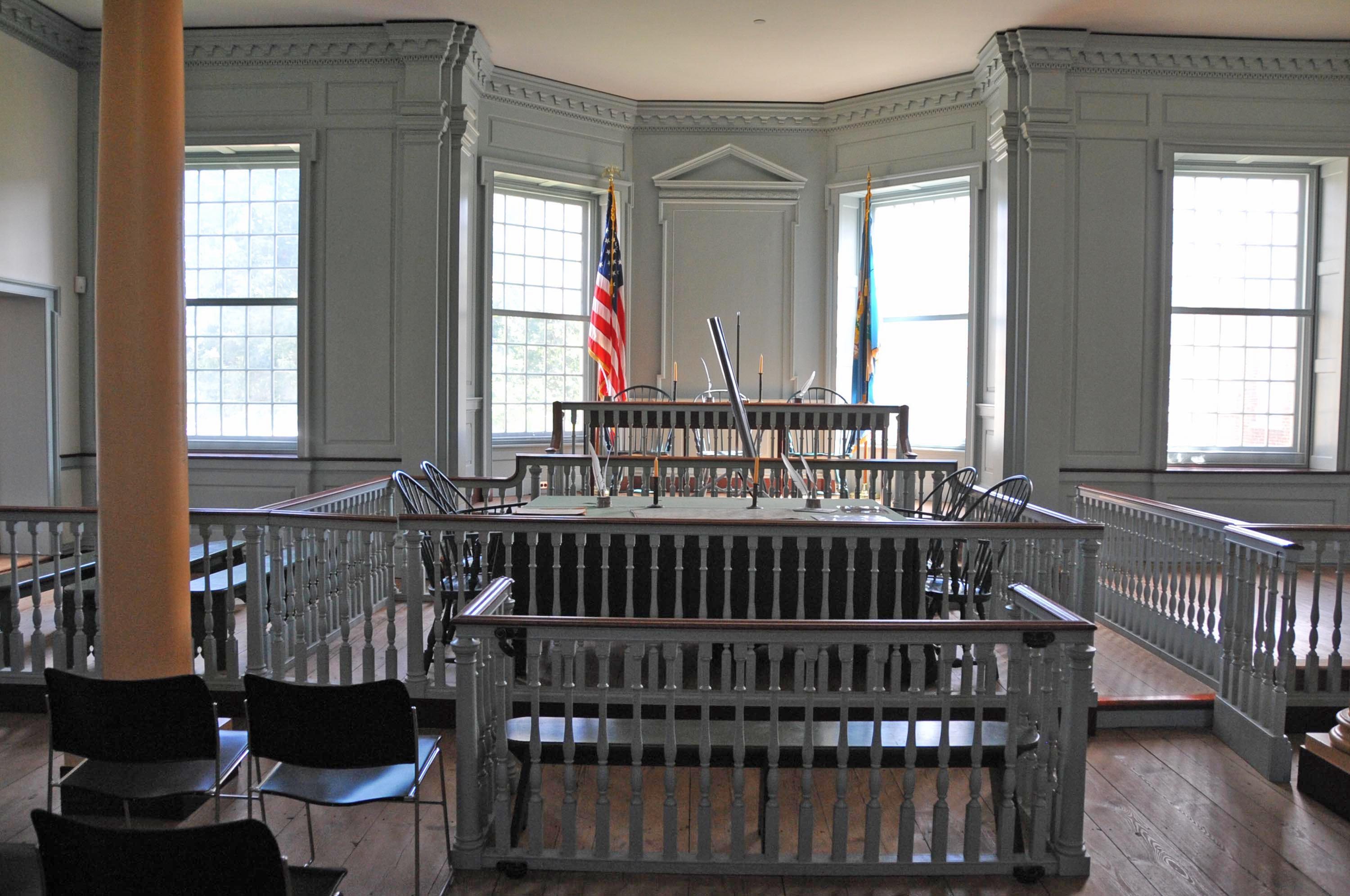 INTERIOR - ENTRANCE HALL OF THE STATE HOUSE